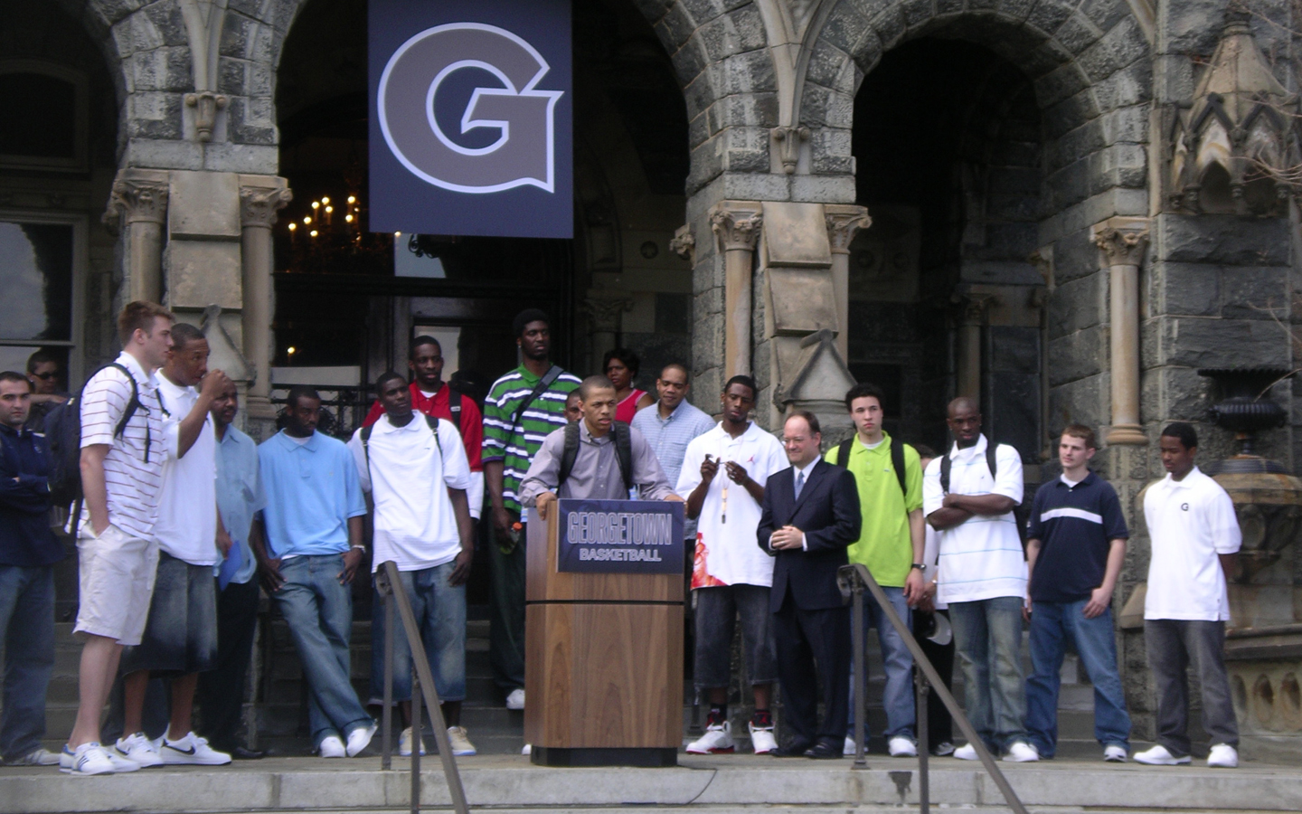 Johnathan Wallace speaks at a podium on Healy Hall in front of the rest of the 2006–07 Georgetown Hoyas men's basketball team, including Jeff Green, Roy Hibbert, Dajuan Summers, Patrick Ewing, Jr., and coach John Thompson III, which reached the Final Four in the NCAA Division I men's basketball tournament. Georgetown University president John J. DeGioia stands next to Wallace.